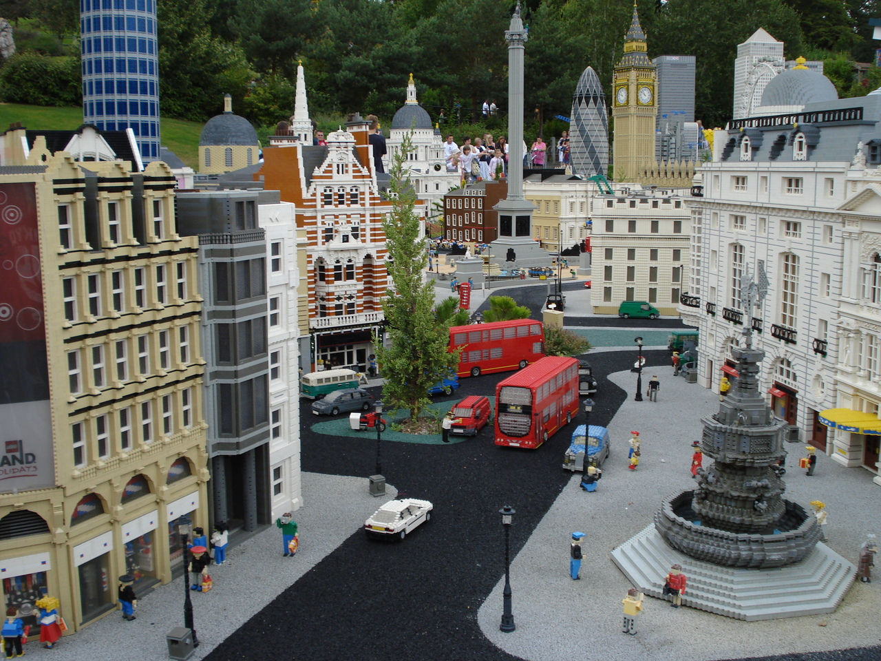 London Miniland at Legoland Windsor